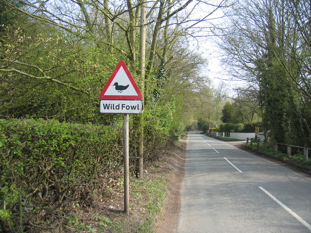 Wild Fowl Wild - they'd probably be livid if they saw this uncomplimentary portrait of them! Looking along Icknield Street, the old Roman Road as it approaches Beoley.